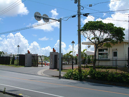 JGSDF Vice-Camp Shirokawa